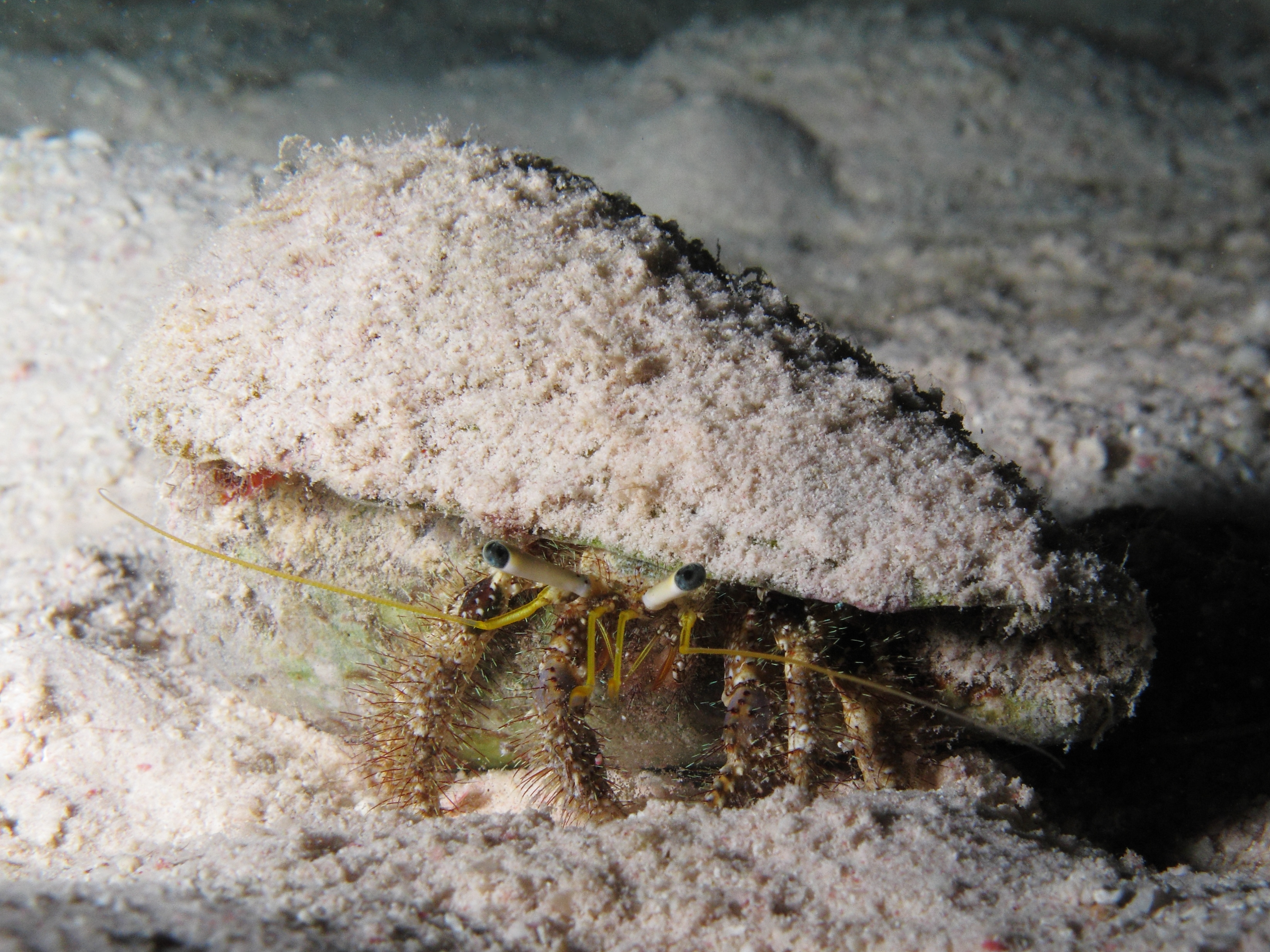 Hermit crab (Dardanus lagopodes) at night dive west of el Fanus reef (near Hurghada, Egypt)